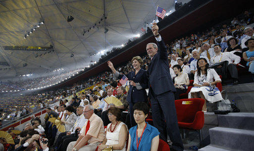 President George W. Bush waves an American flag as he and Mrs. Laura Bush stand and cheer during the entrance of the U.S. athletes into China's National Stadium Friday, Aug. 8, 2008, in Beijing.